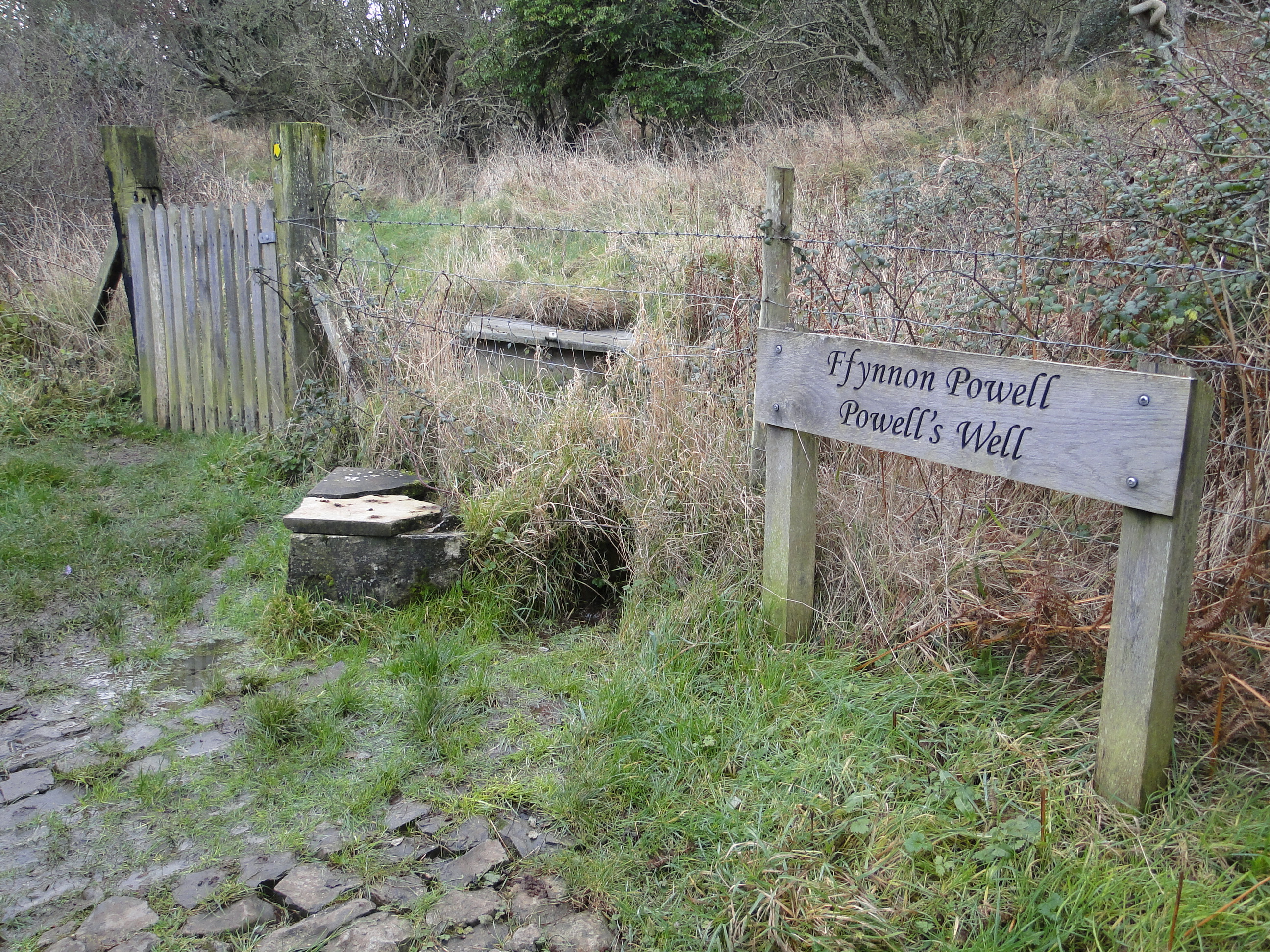 Fynnon Powel, one of the renowned wells on Llandudno's Great Orme